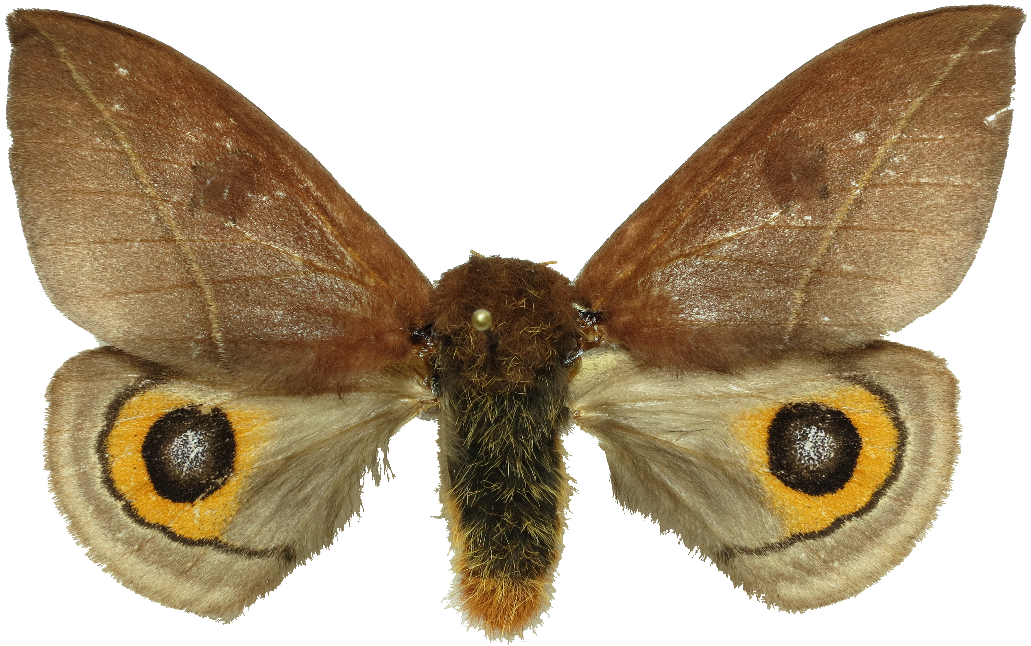 Automeris naranja femelle - Guyane Française